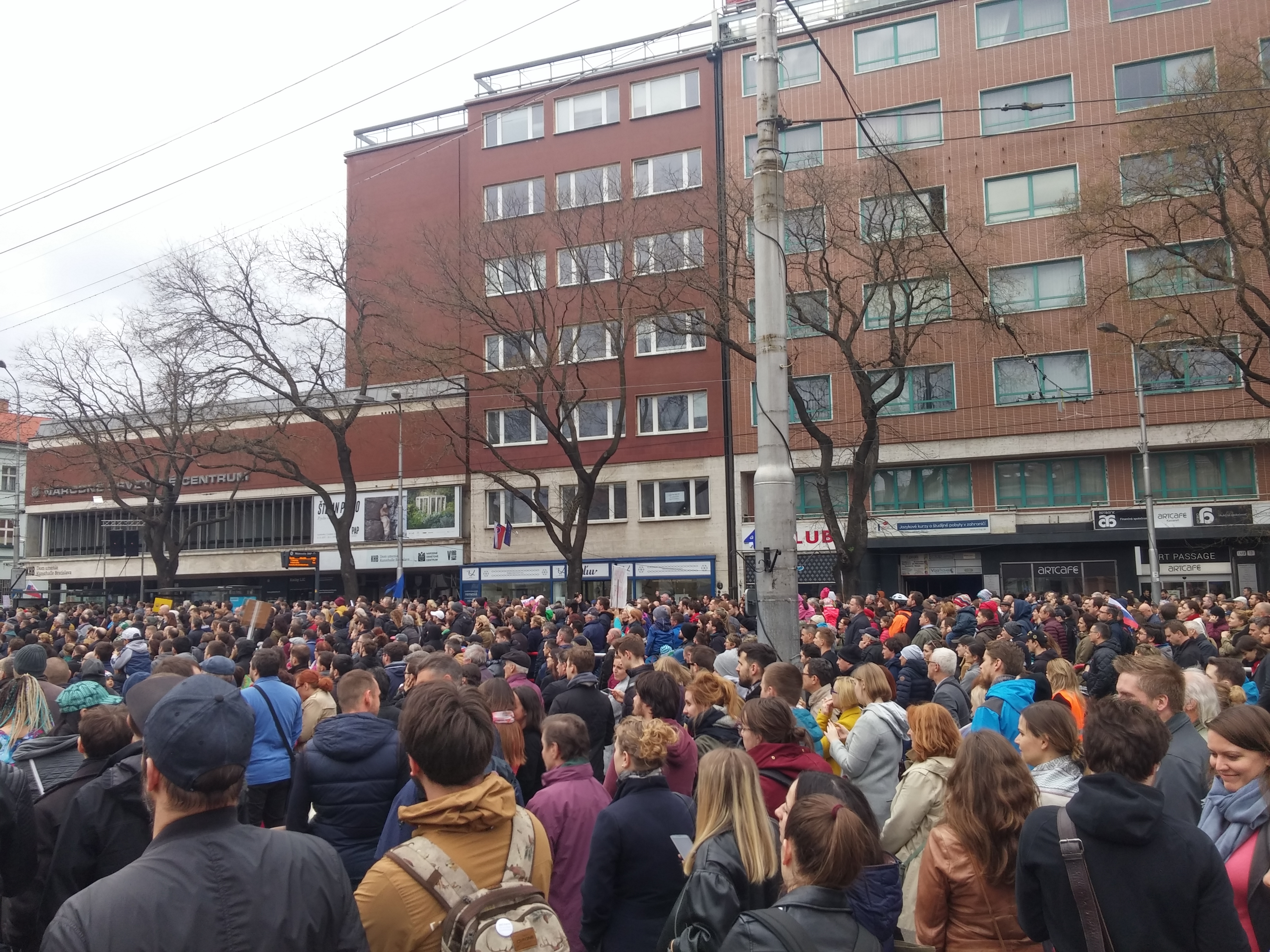 Anti government protests in Bratislava, Slovakia on April 5, 2018.